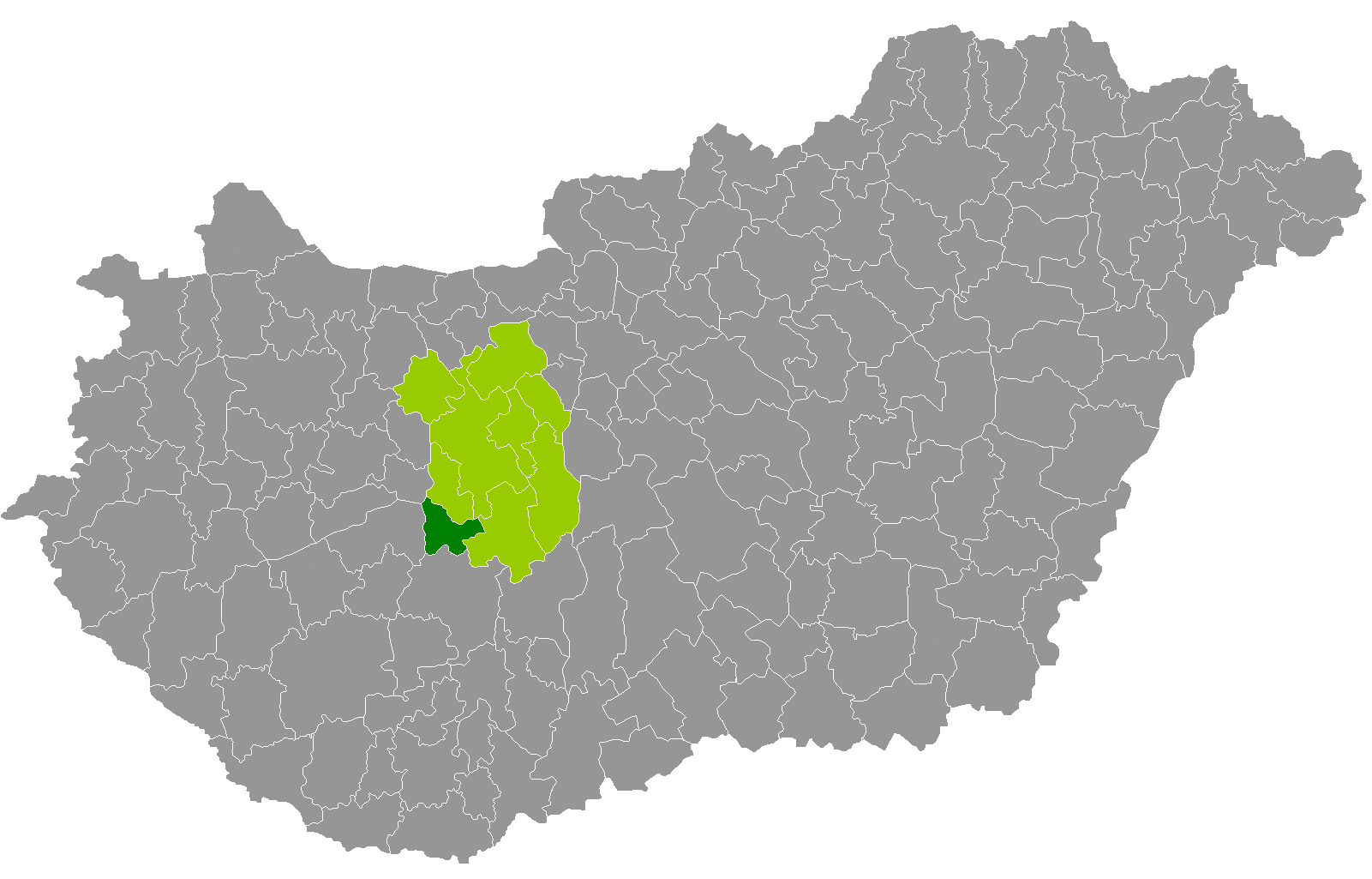 Location of Enying District, Fejér, Hungary